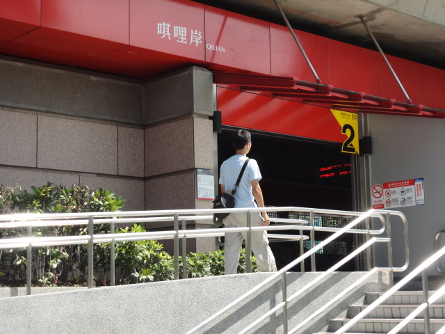 Exit 2, Qilian Station, Taipei Metro.